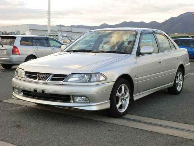 2001 Toyota Carina GT AT212